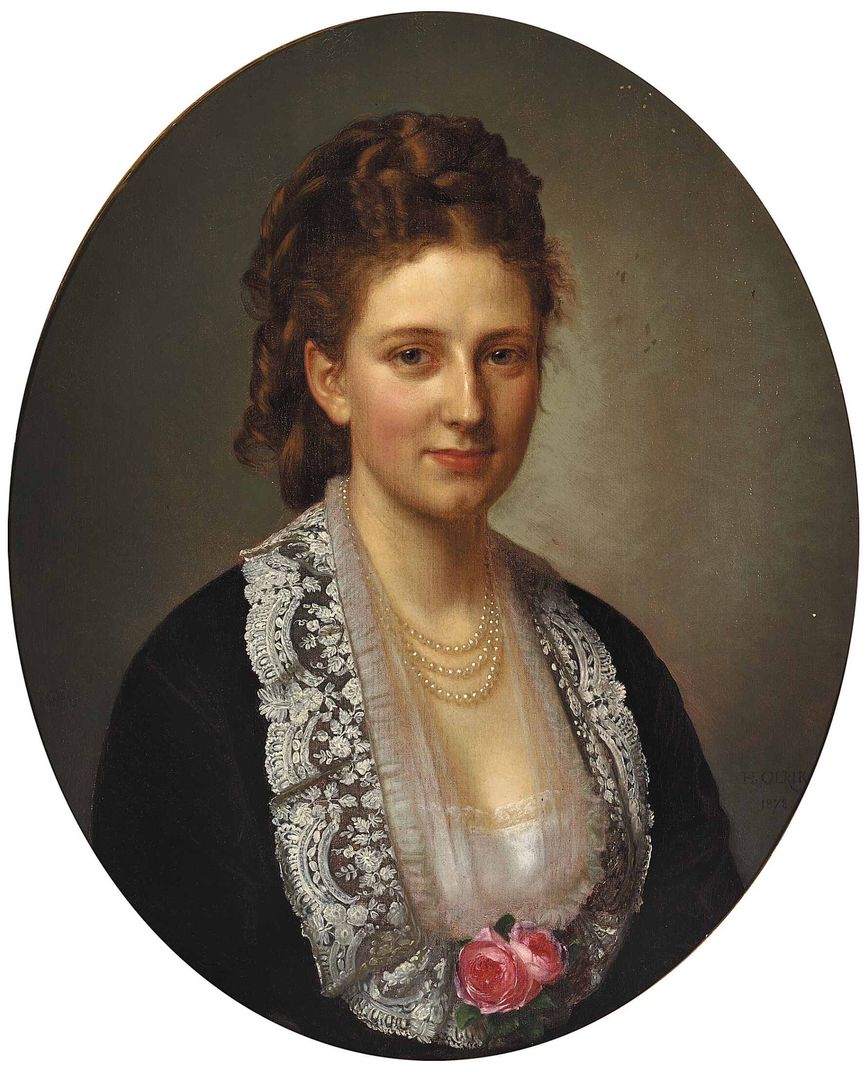 Portræt af Caroline Charlotte Suhr i mørk kjole med blondekrave og lyserøde roser ved udskæringen , 1872